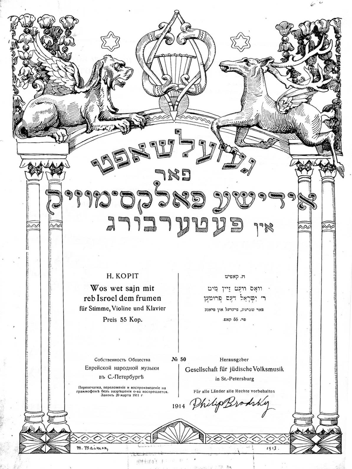 Title page from a publication of the St. Petersburg Society for Jewish Folk Music (Kopit, "Wos wet sajn mit reb Isroel dem frumen")